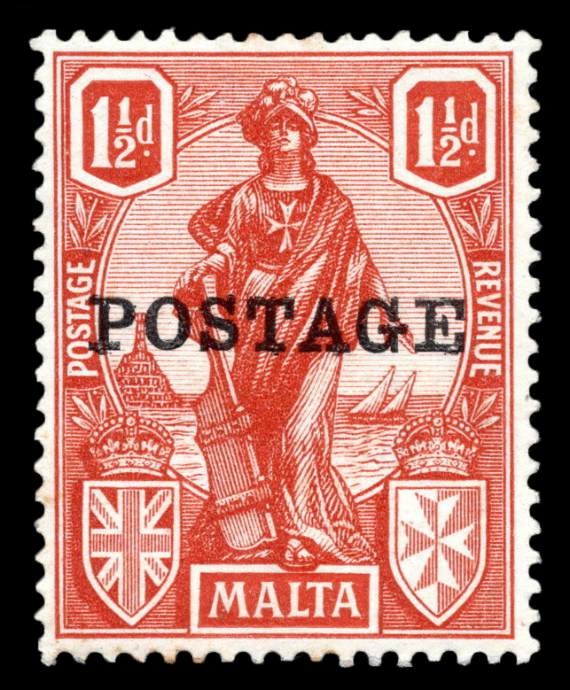 Malta 1926 Melita Postage 1½d brown-red stamp in mint condition